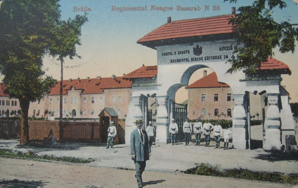 The barracks of the 38 Infantry Regiment from the Royal Romanian Army (Brăila)